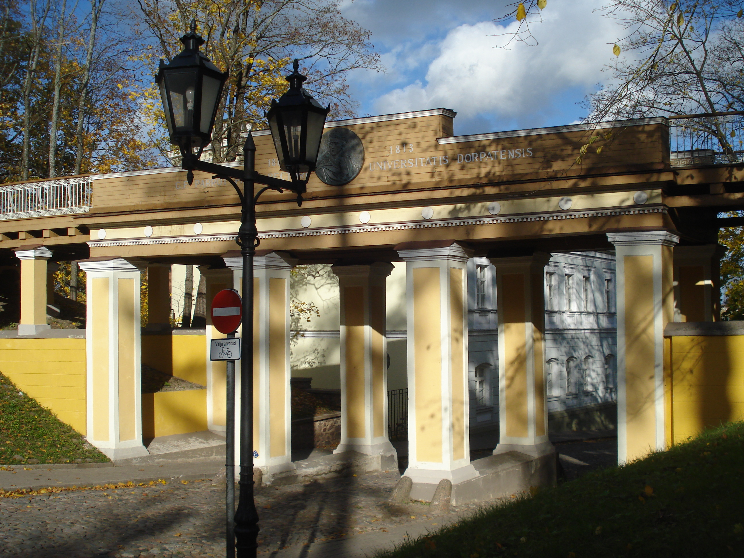 Angel's bridge in Tartu (Estonia). Built in 1838